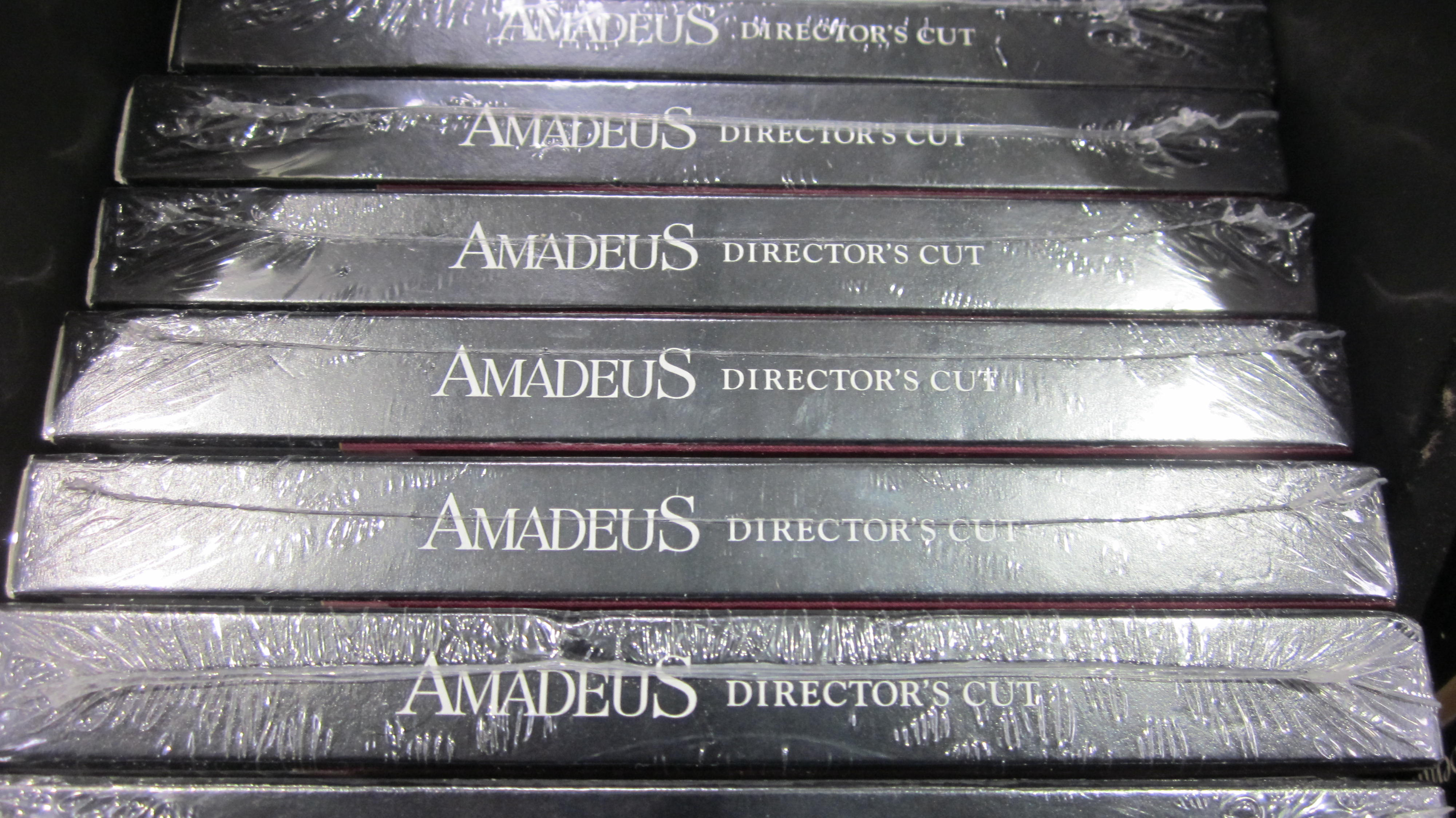 Amadeus Director's Cut DVDs at Costco Warehouse no. 475 in South San Francisco, California.